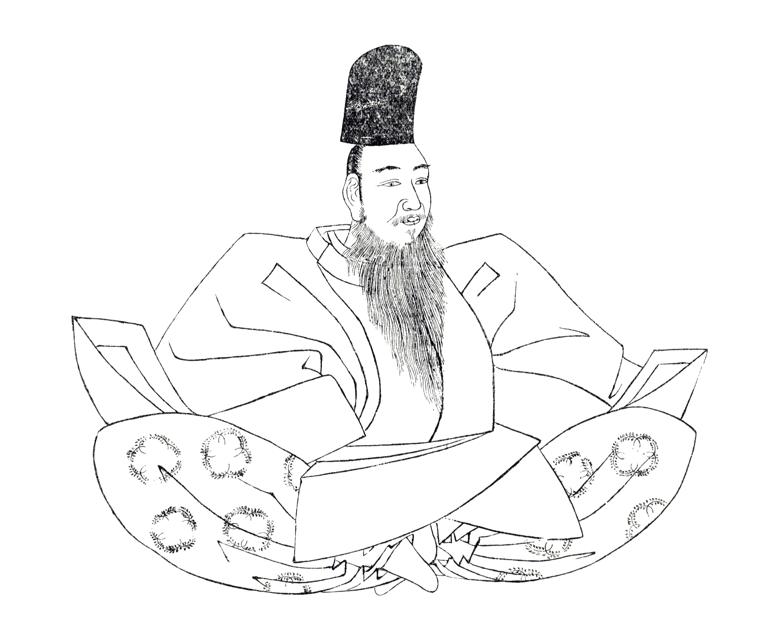 Portrait of Hino Katsumitsu